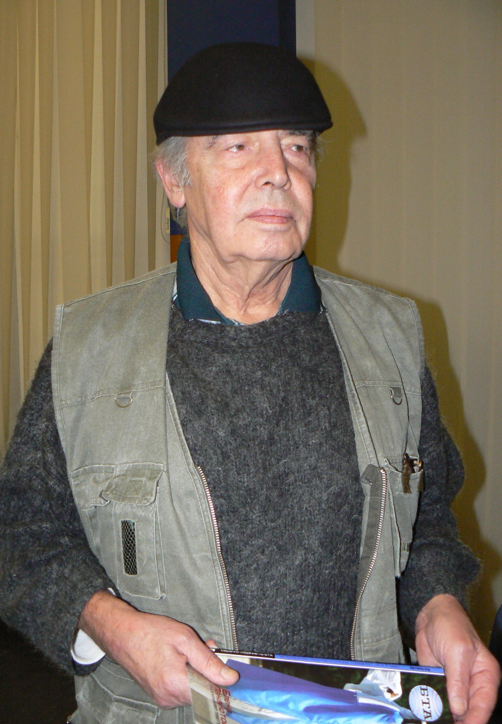 Bulgarian translator and journalist Dimitri Ivanov, at a translators' meeting in the Bulgarian News Agency